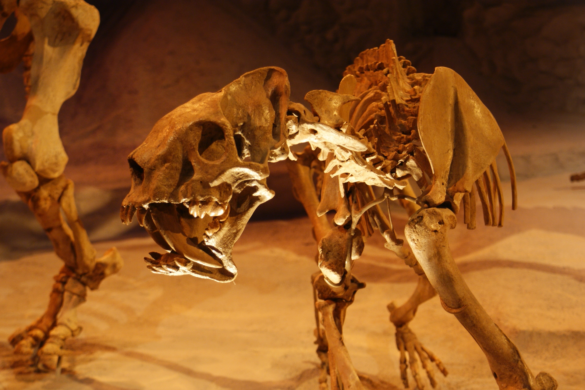 Barbourofelis loveorum in the Florida Museum of Natural History Fossil Hall at the University of Florida.